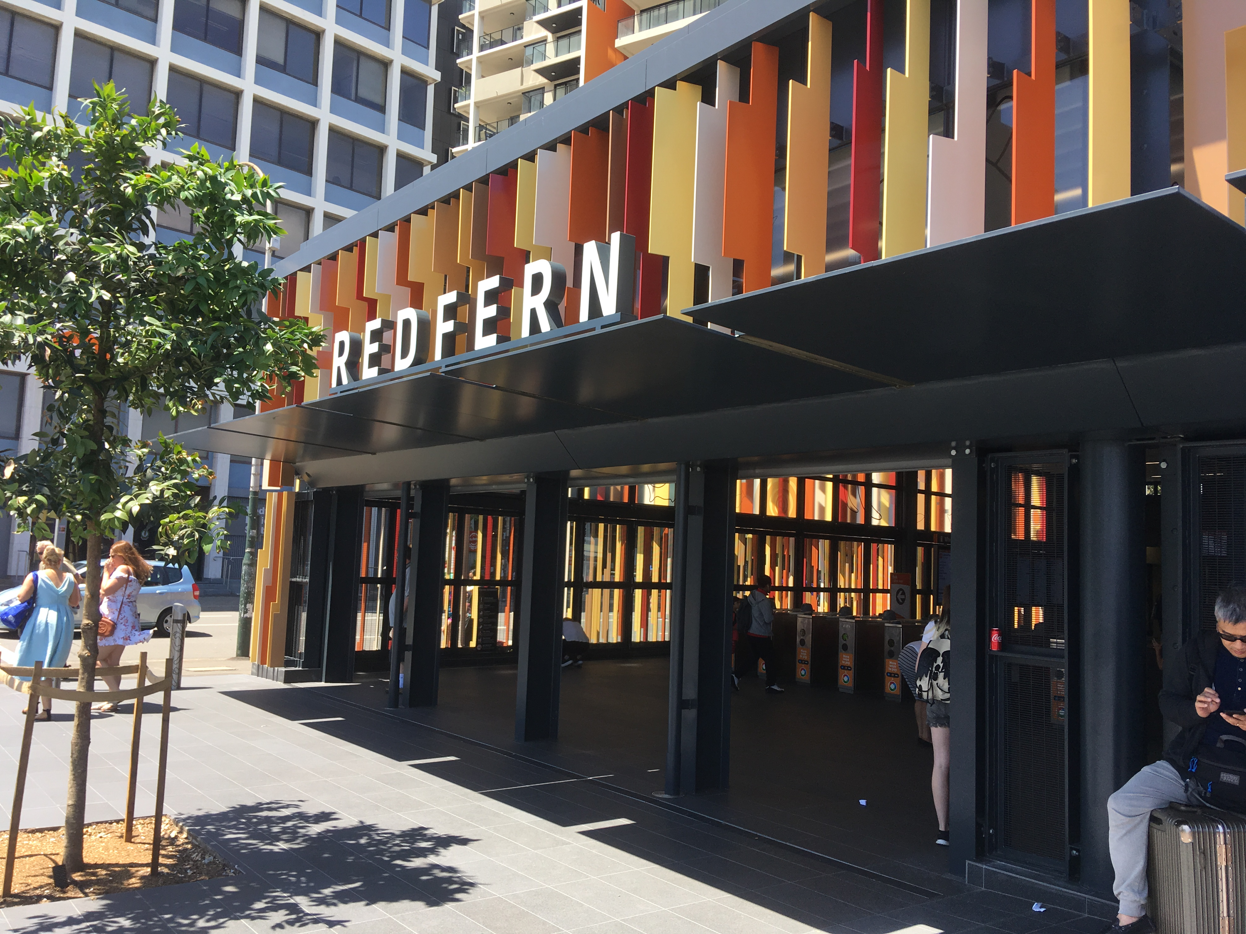 New Gibbons Street entrance, opened in November 2018, picture taken in December 2018